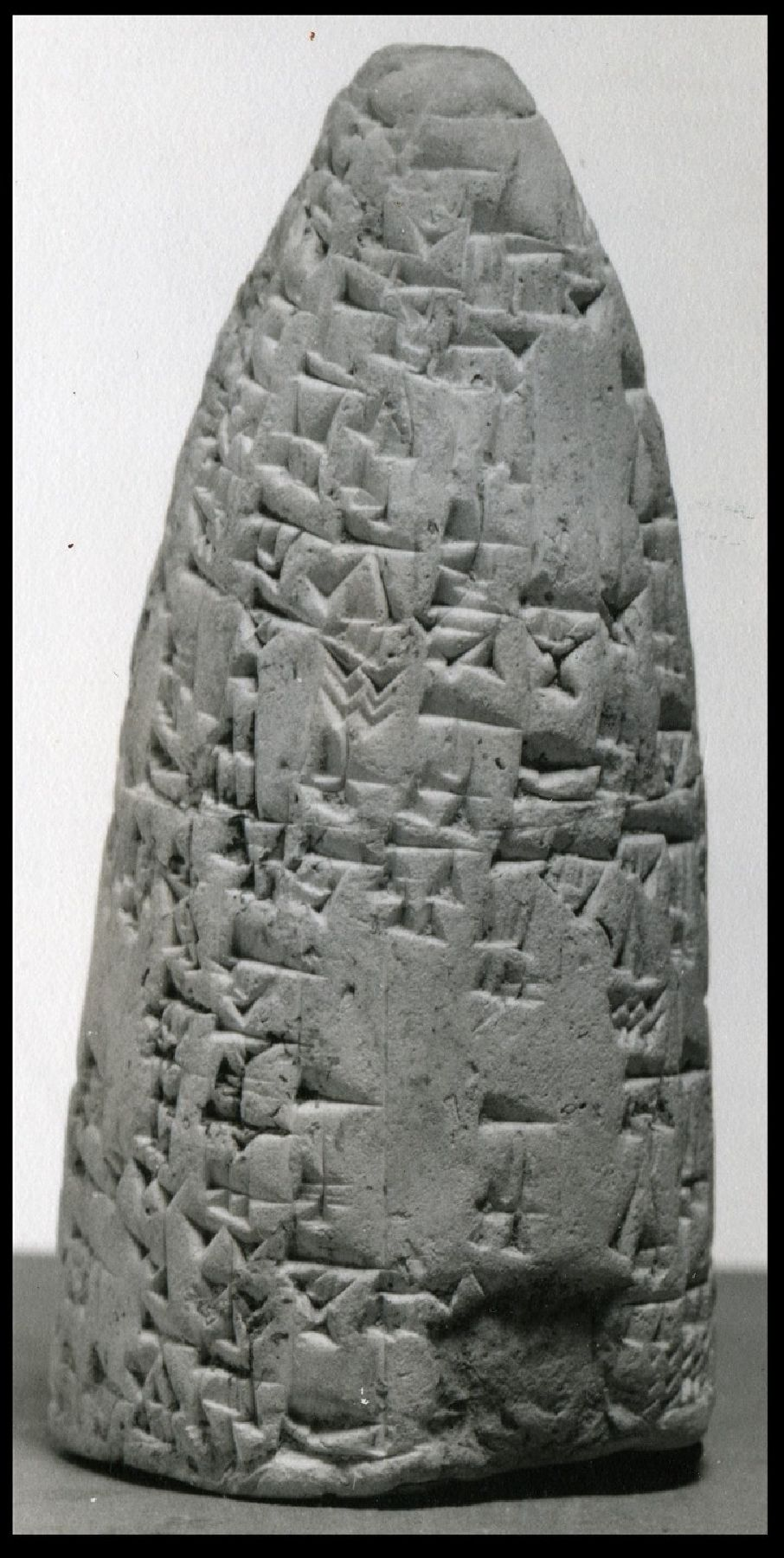 This unglazed, inscribed clay cone is from the Ur III period. It features the name of Lipit Ishtar, king of Isin. The nail has no head and the sides are slightly curved.